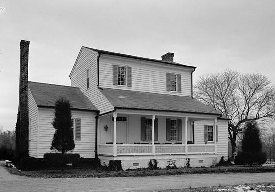 Moorefields, State Route 1135, Hillsborough (Orange County, North Carolina) - cropped This file comes from the Historic American Buildings Survey (HABS), Historic American Engineering Record (HAER) or Historic American Landscapes Survey (HALS). These are programs of the National Park Service established for the purpose of documenting historic places. Records consist of measured drawings, archival photographs, and written reports. When reusing please credit: Library of Congress, Prints & Photographs Division, NC,68-HILBO,9-1 This tag does not indicate the copyright status of the attached work. A normal copyright tag is still required. See Commons:Licensing. This work is in the public domain in the United States because it is a work prepared by an officer or employee of the United States Government as part of that person’s official duties under the terms of Title 17, Chapter 1, Section 105 of the US Code. Note: This only applies to original works of the Federal Government and not to the work of any individual U.S. state, territory, commonwealth, county, municipality, or any other subdivision. This template also does not apply to postage stamp designs published by the United States Postal Service since 1978. (See § 313.6(C)(1) of Compendium of U.S. Copyright Office Practices). It also does not apply to certain US coins; see The US Mint Terms of Use. This file has been identified as being free of known restrictions under copyright law, including all related and neighboring rights. Object location36° 03′ 07″ N, 79° 08′ 43″ W